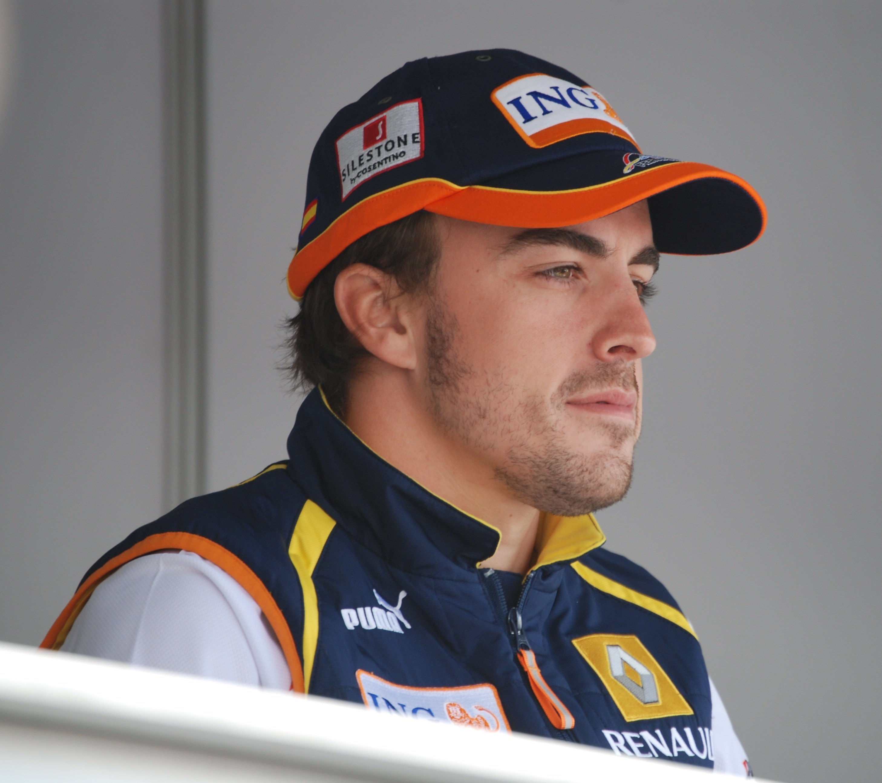 Fernando Alonso at the 2009 Australian Grand Prix.